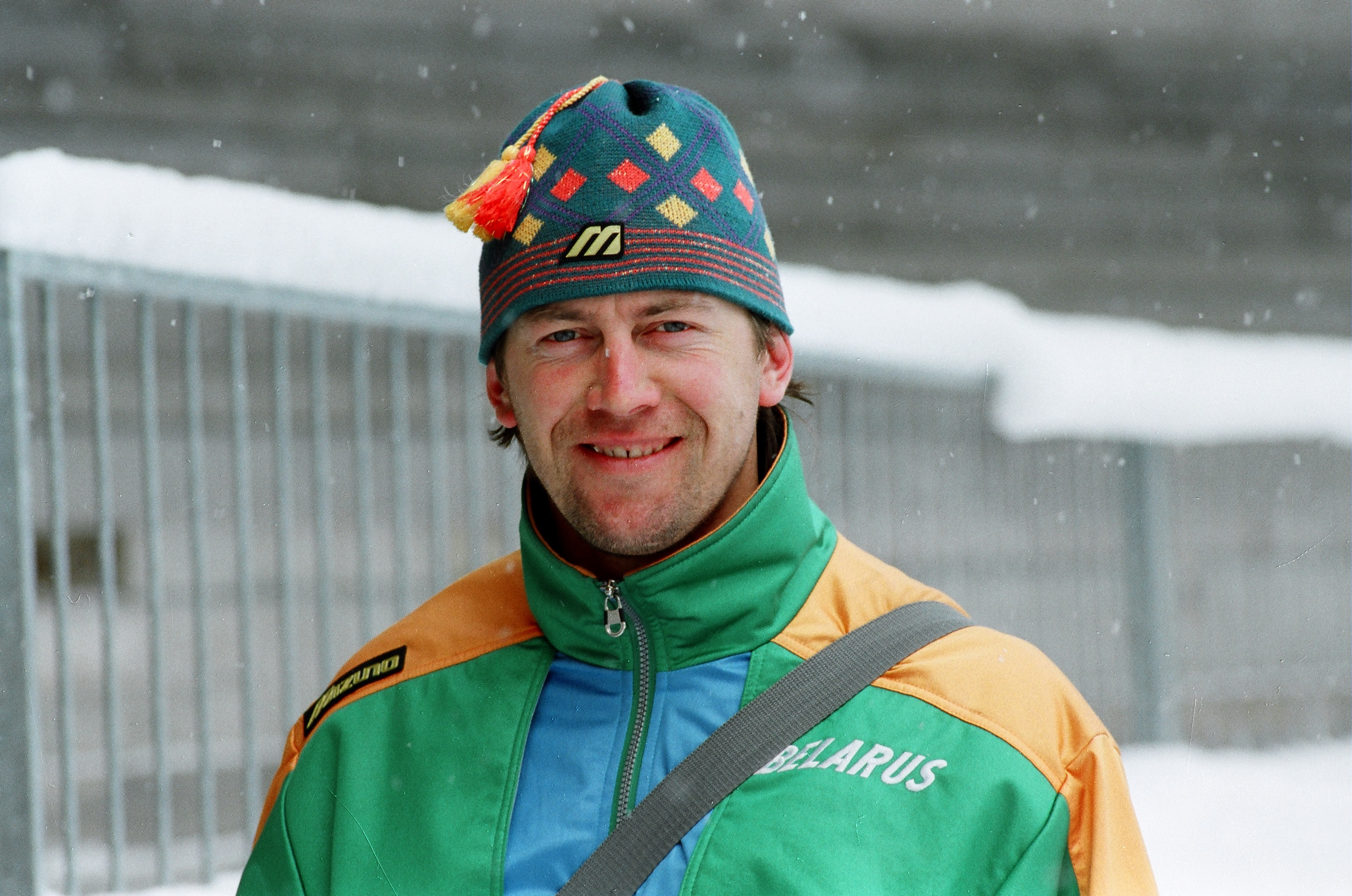 Igor Zjelezovski